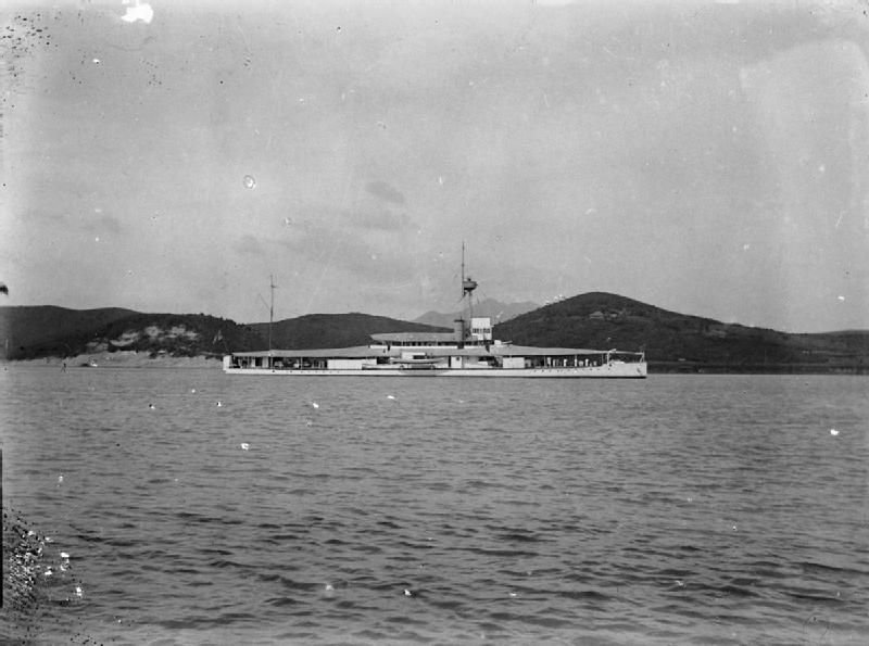 IWM caption : "The Insect Class river gunboat HMS GNAT on the China Station during the summer of 1922."